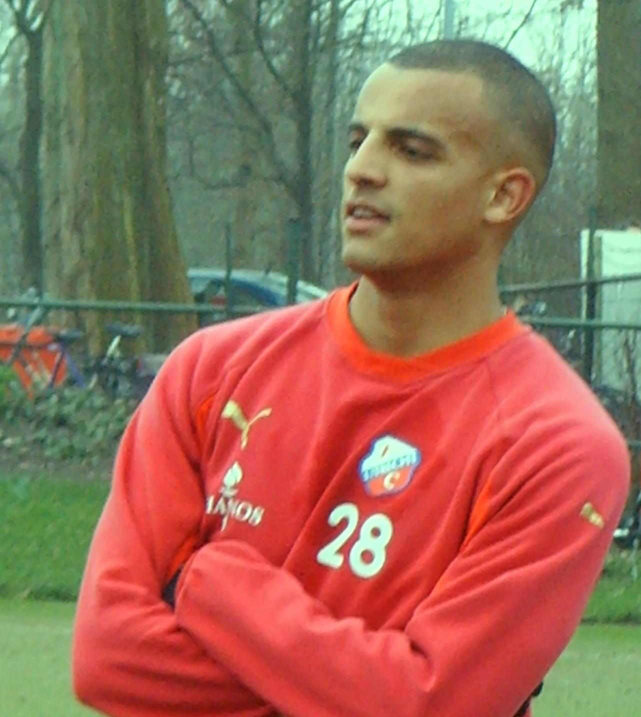 Mohammed Faouzi during a training